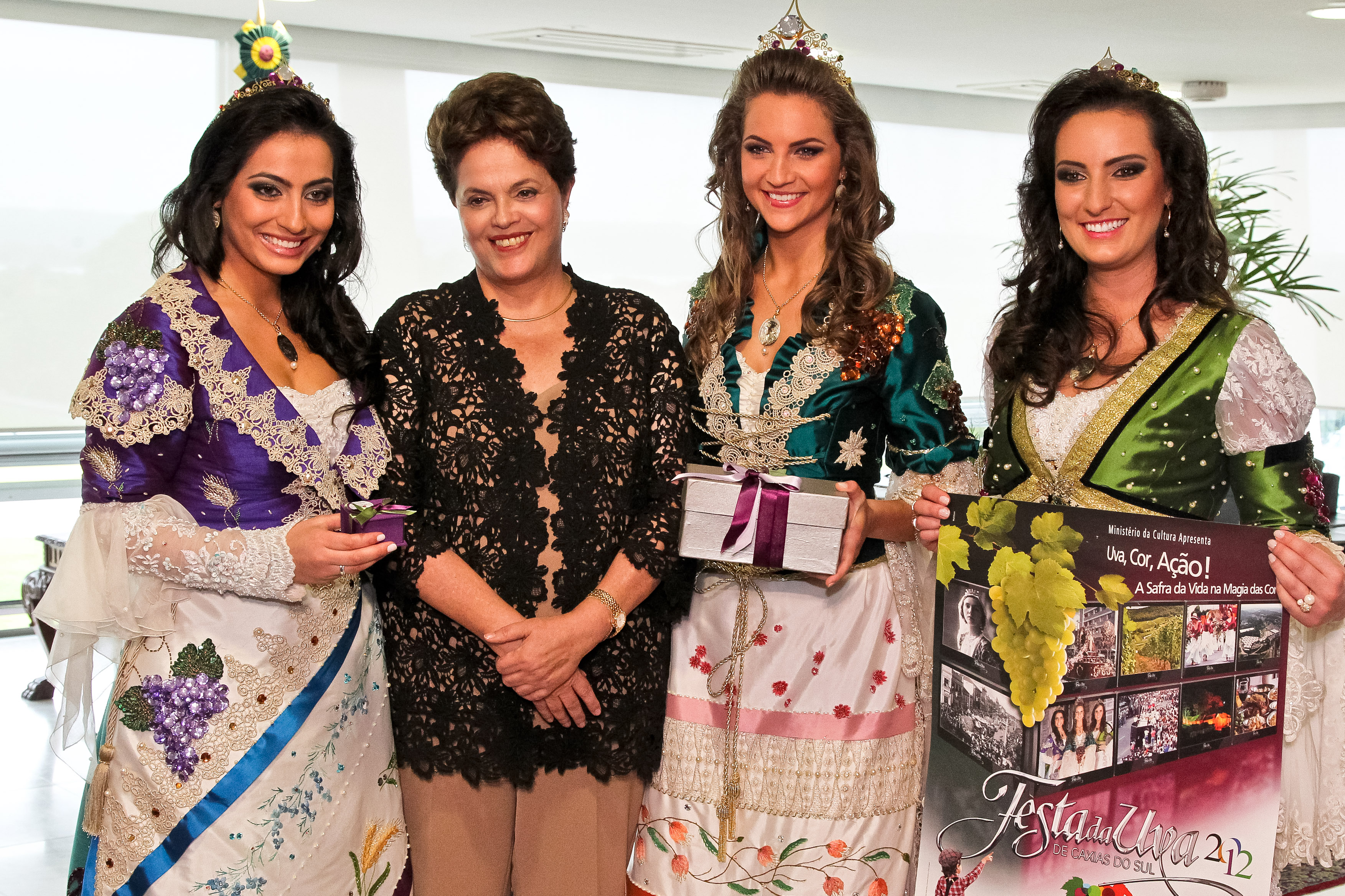 Festa da Uva 2012 in Caxias do Sul - Brazil